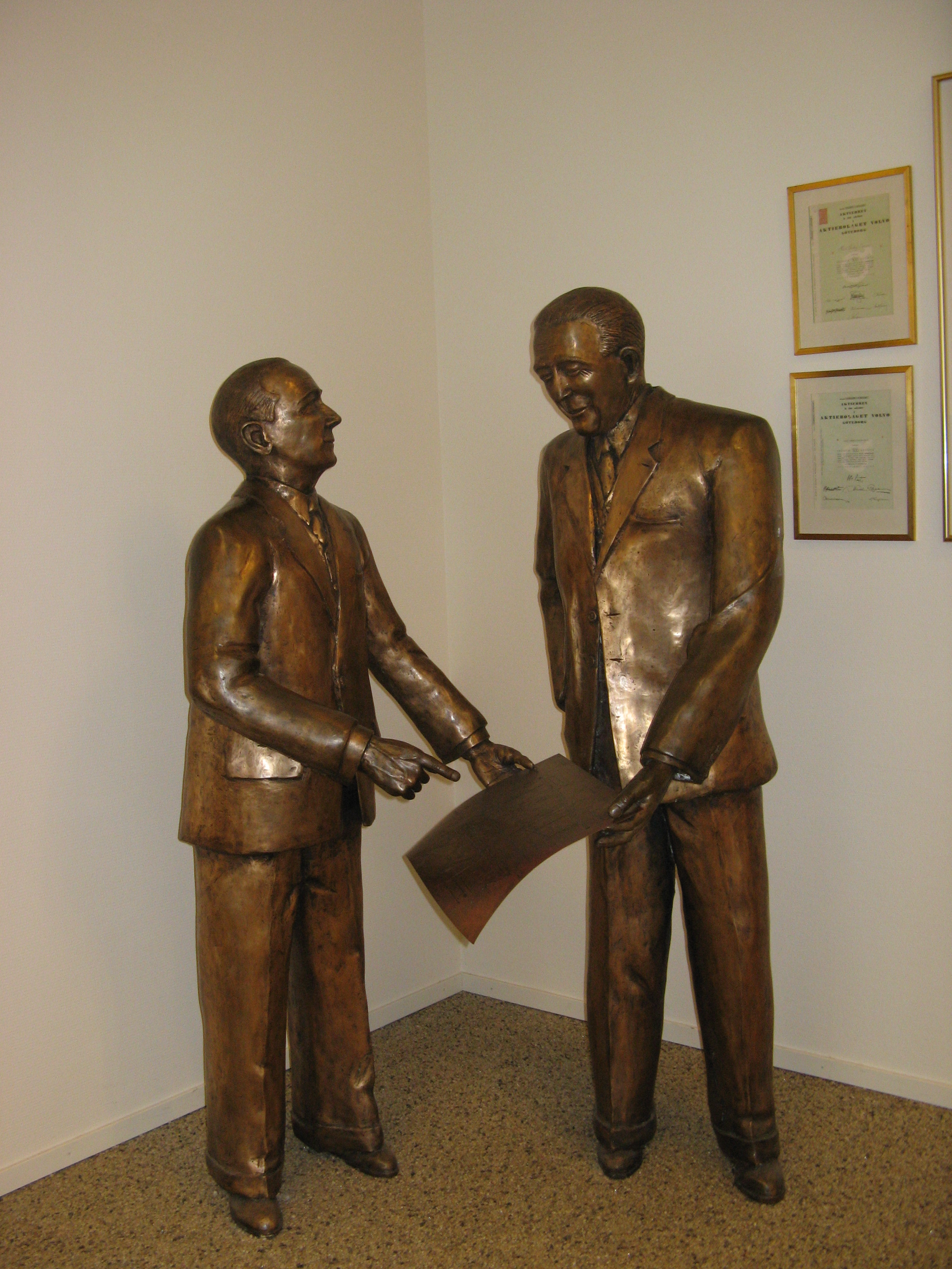 Bronze statue of the 1920s founders of the Volvo company — Gustav Larson (left) and Assar Gabrielsson (right). Displayed in the Volvo Museum, in Göteborg, western Sweden.